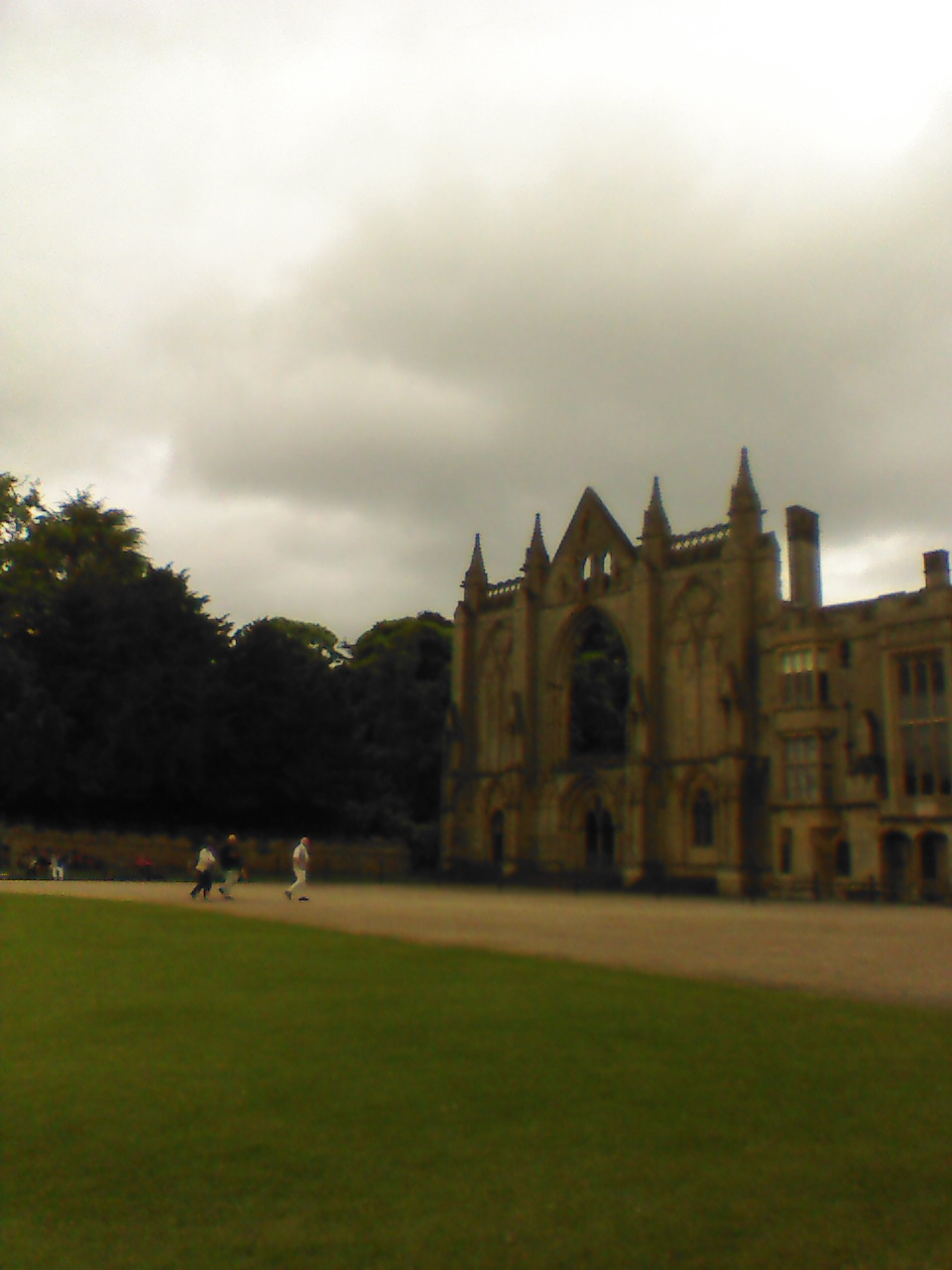 A photograph that I took on 28th June 2015 of Newstead Abbey.